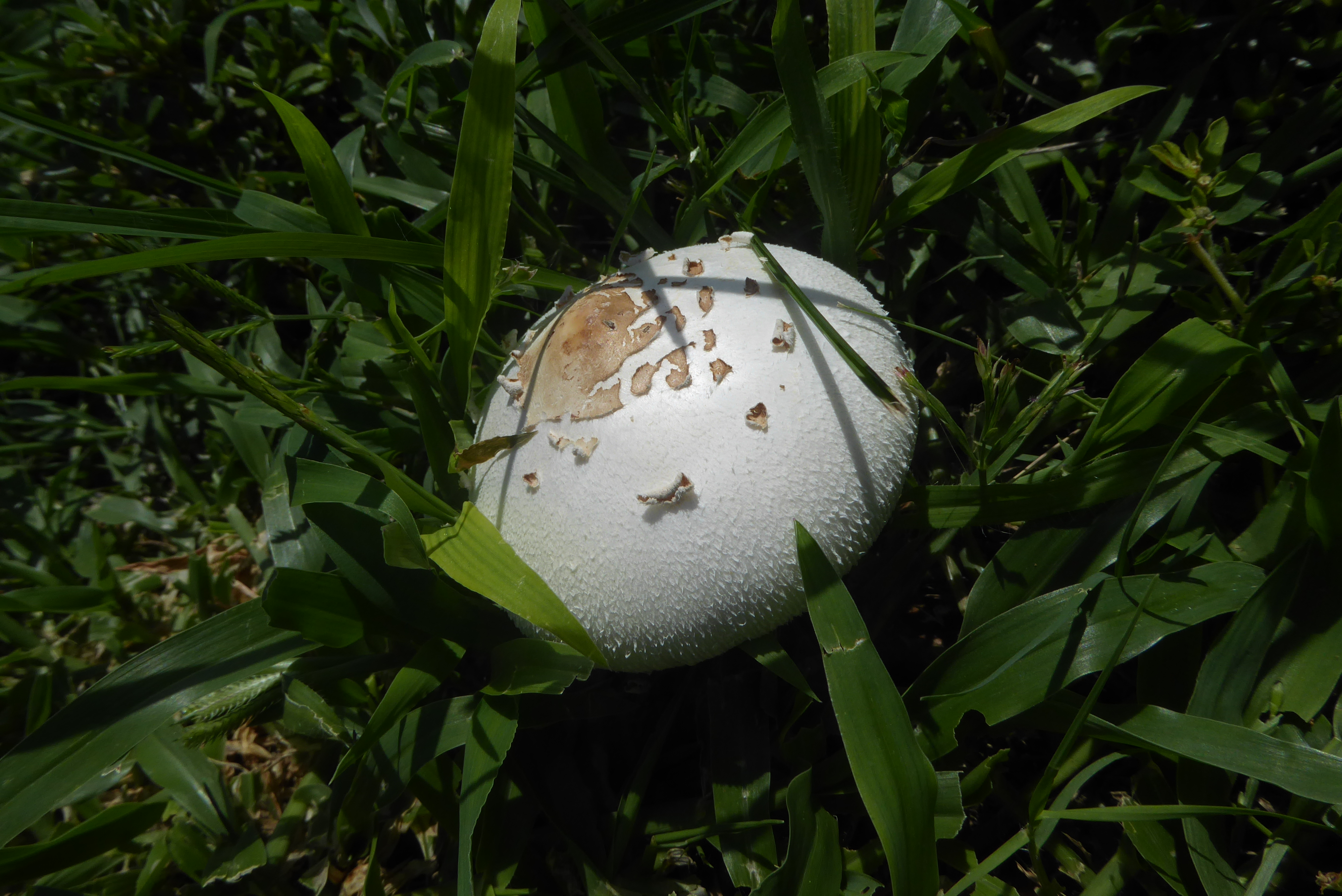 Edith Wolfson Park